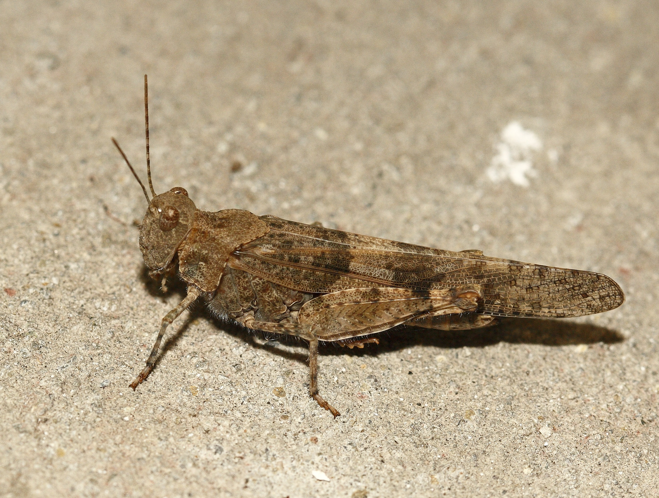 Picture of a female pallid-winged grasshopper (Trimerotropis Pallidipennis)